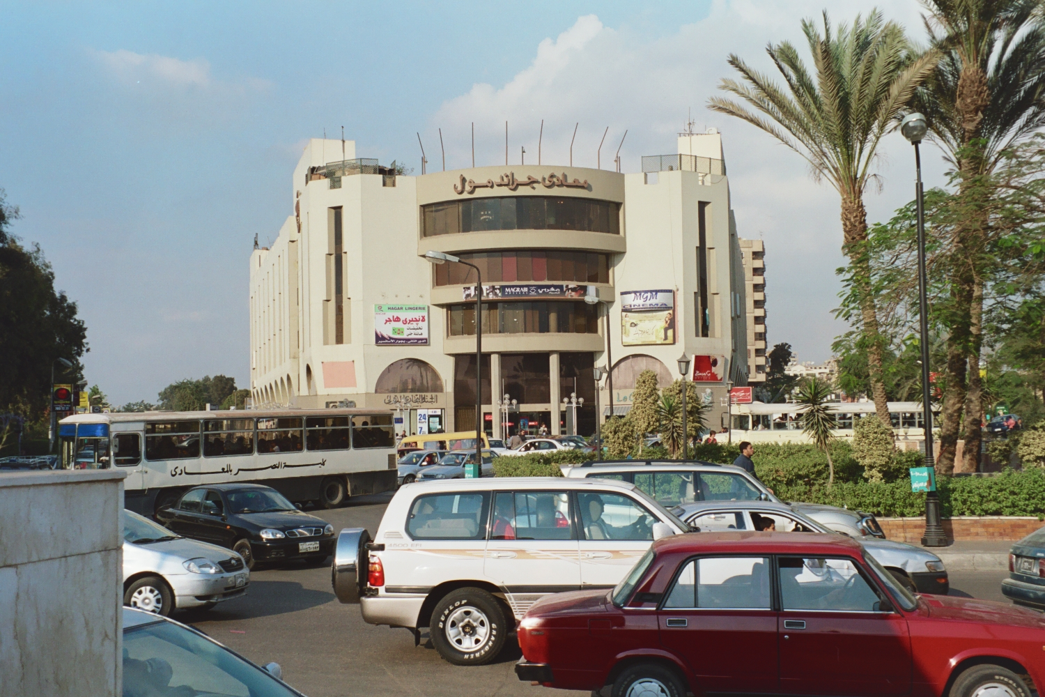 Mall Square, Maadi, Egypt.